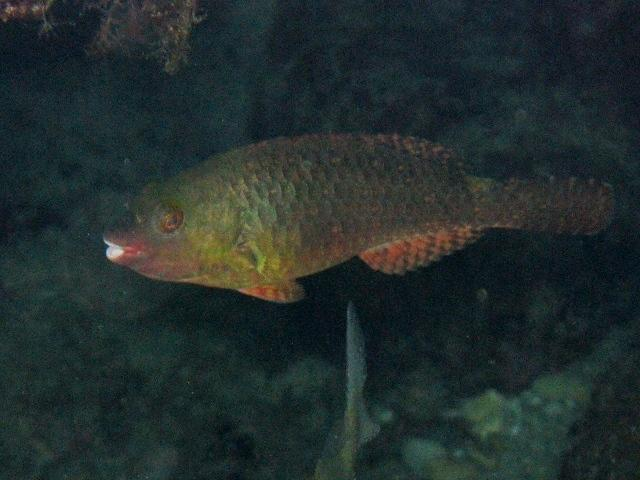 Sparisoma cretense photographed in Karpathos, Greece